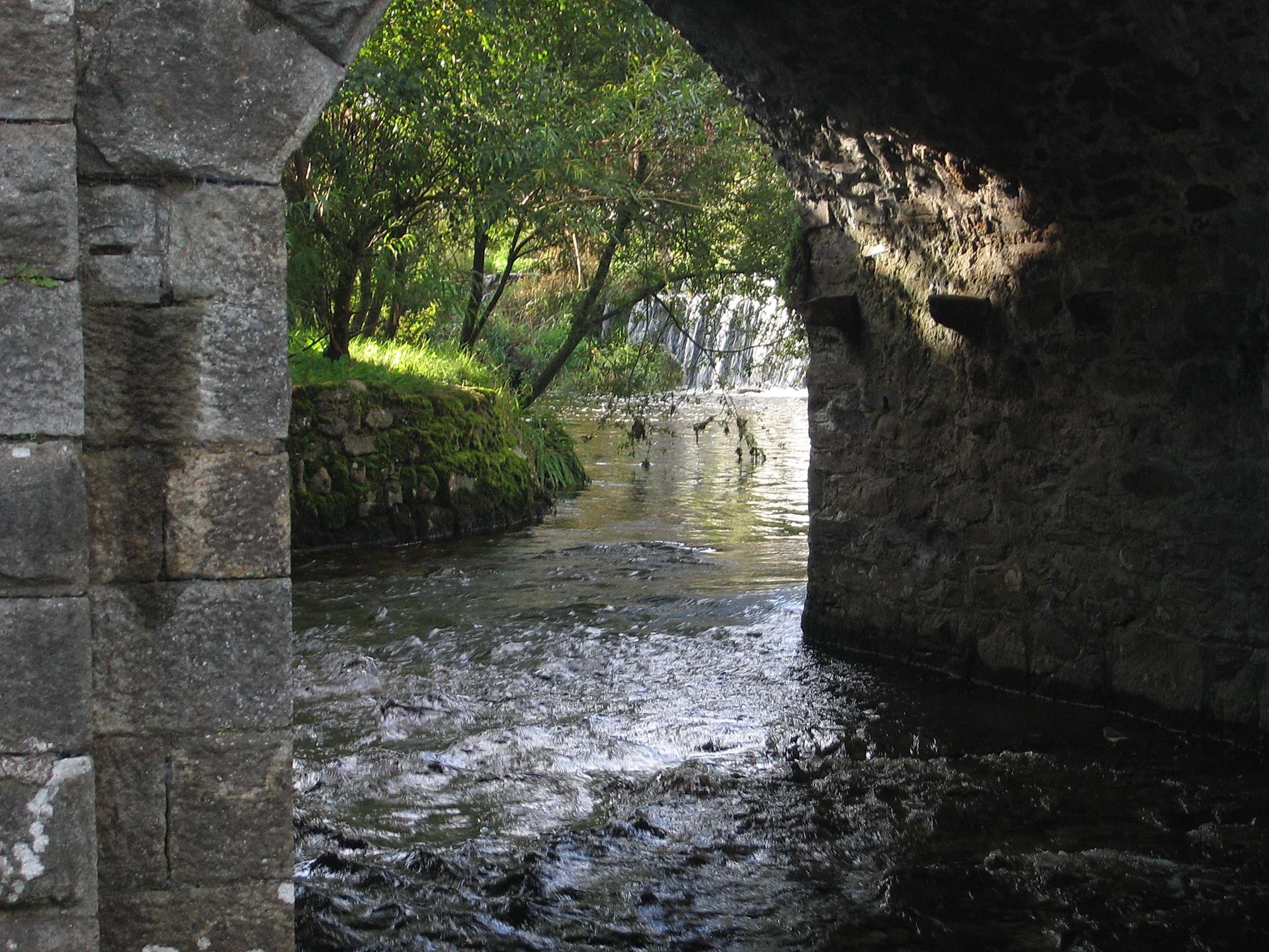 Bridge over the River Aughrim in Aughrim, County Wicklow (Sarah777 13:56, 2 January 2007 (UTC))